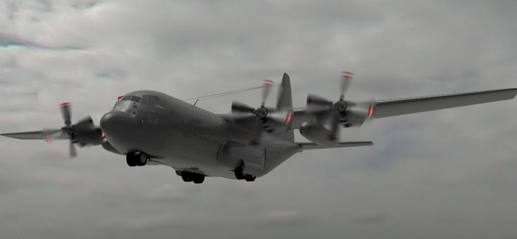 Picture of a C-130 Hercules made in Sketchup and rendered in Kerkythea. Motion blur of propellers made in Photoshop 7.0.